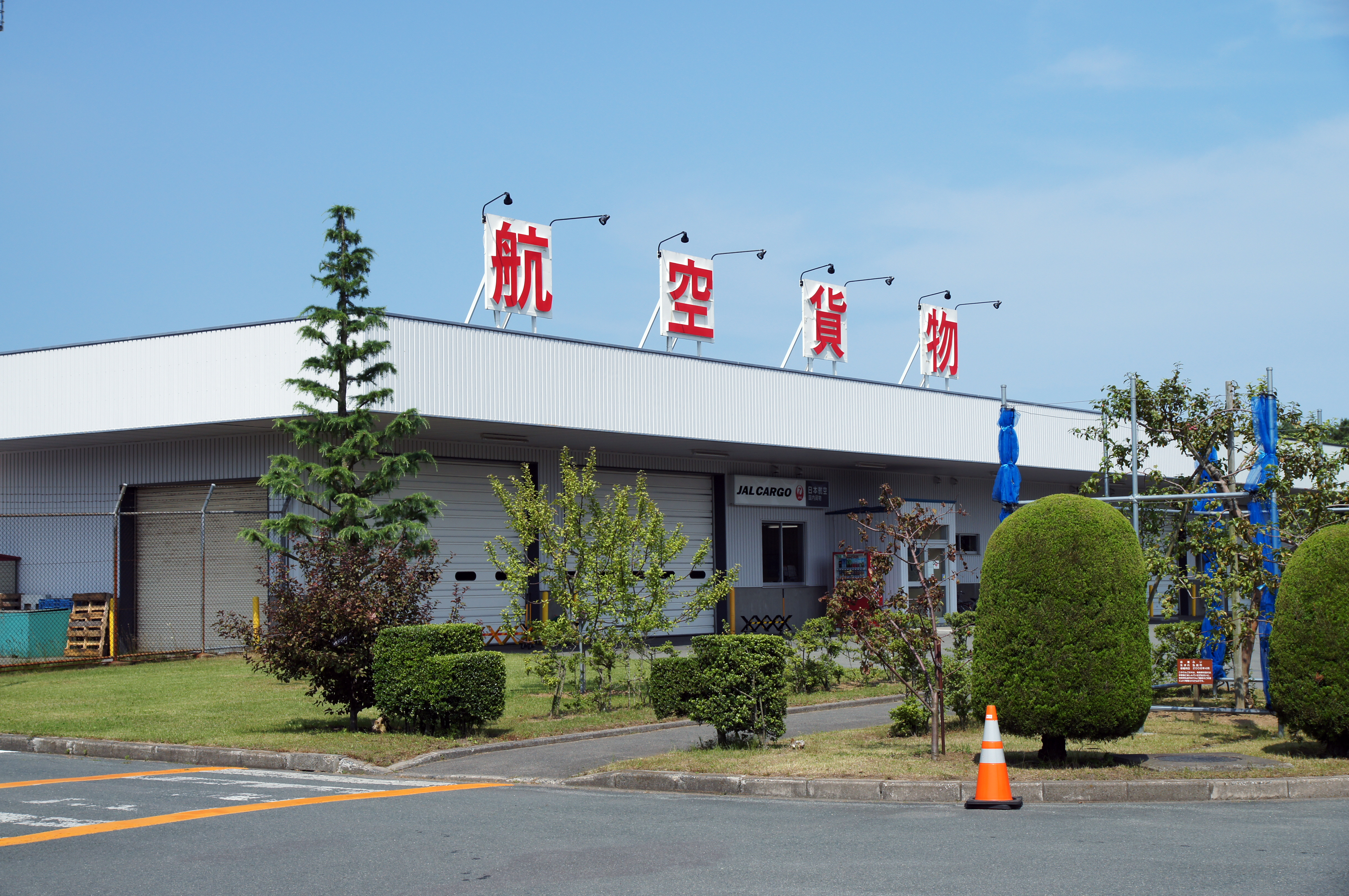 Misawa Airport in Misawa, Aomori prefecture, Japan